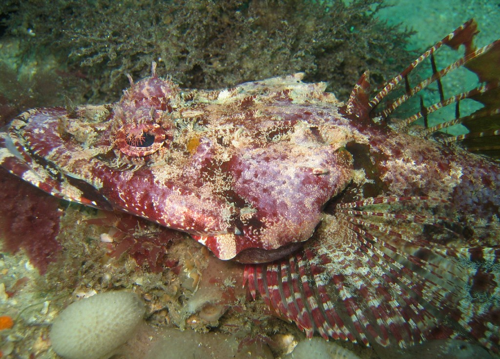 Portrait of a Tasselsnout Flathead (Thysanophrys cirronasa). Halifax Point, Port Stephens, NSW